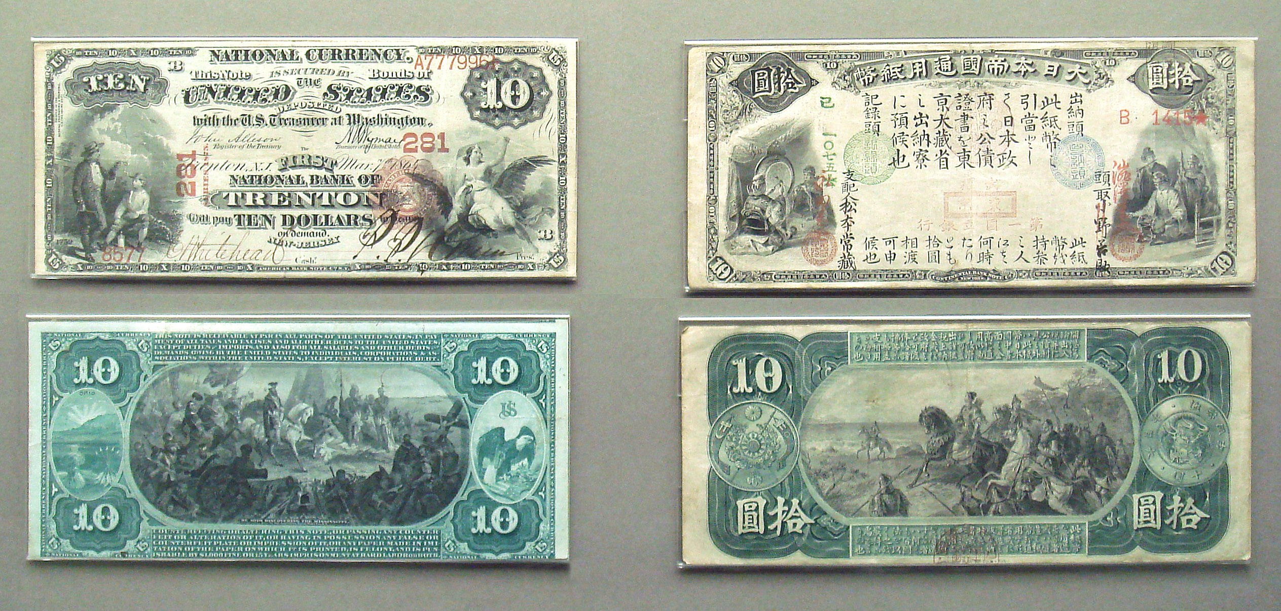 US_dollar_note_and_Japanese_National_Bank_note_1873